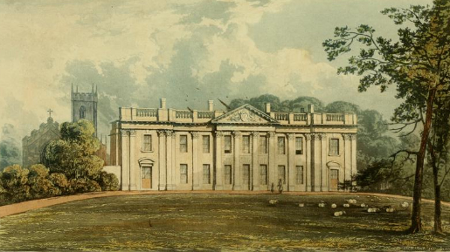 A coloured engraving of Sutton Scarsdale Hall, 1827